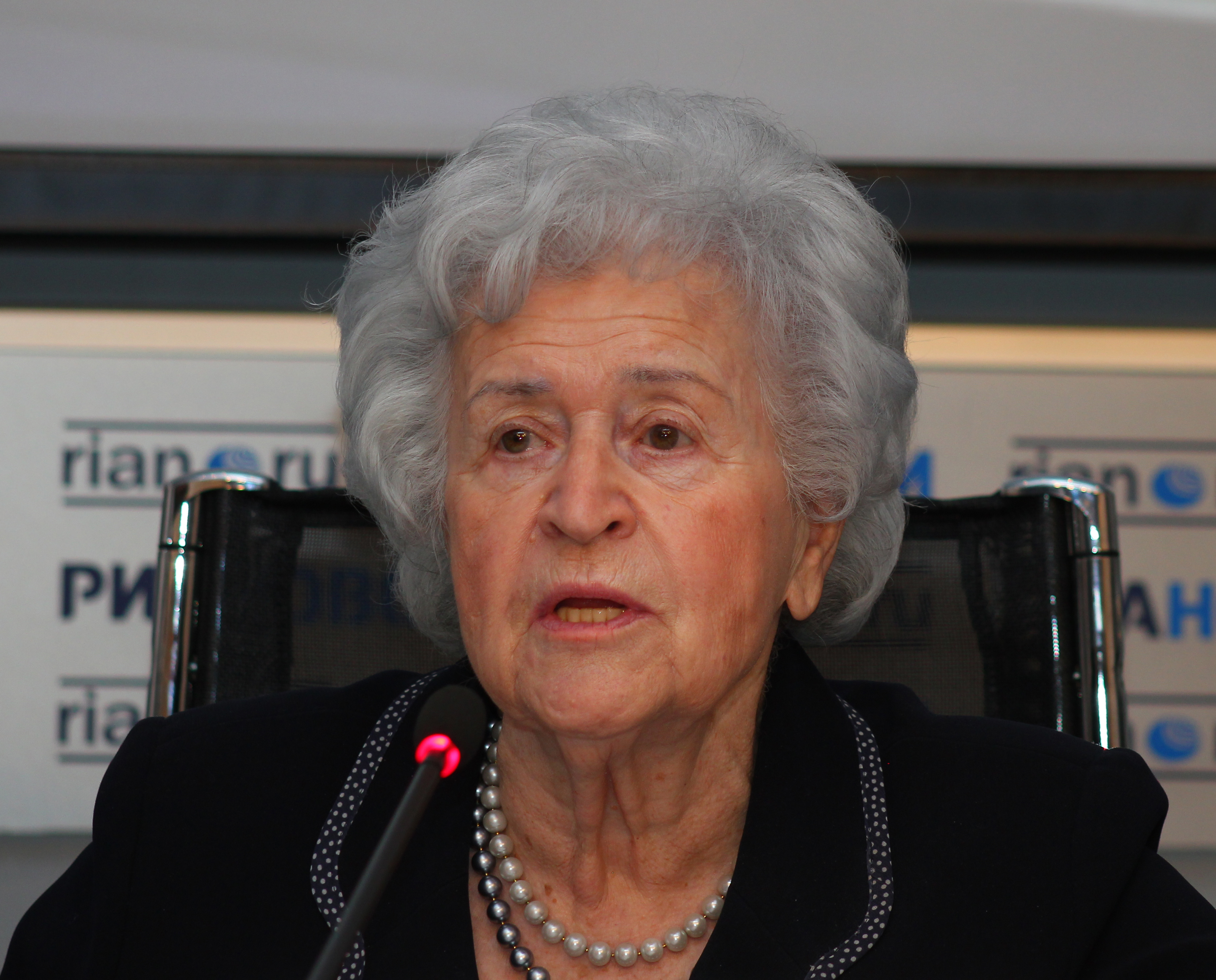 The Pushkin Museum director Irina Antonova in Moscow